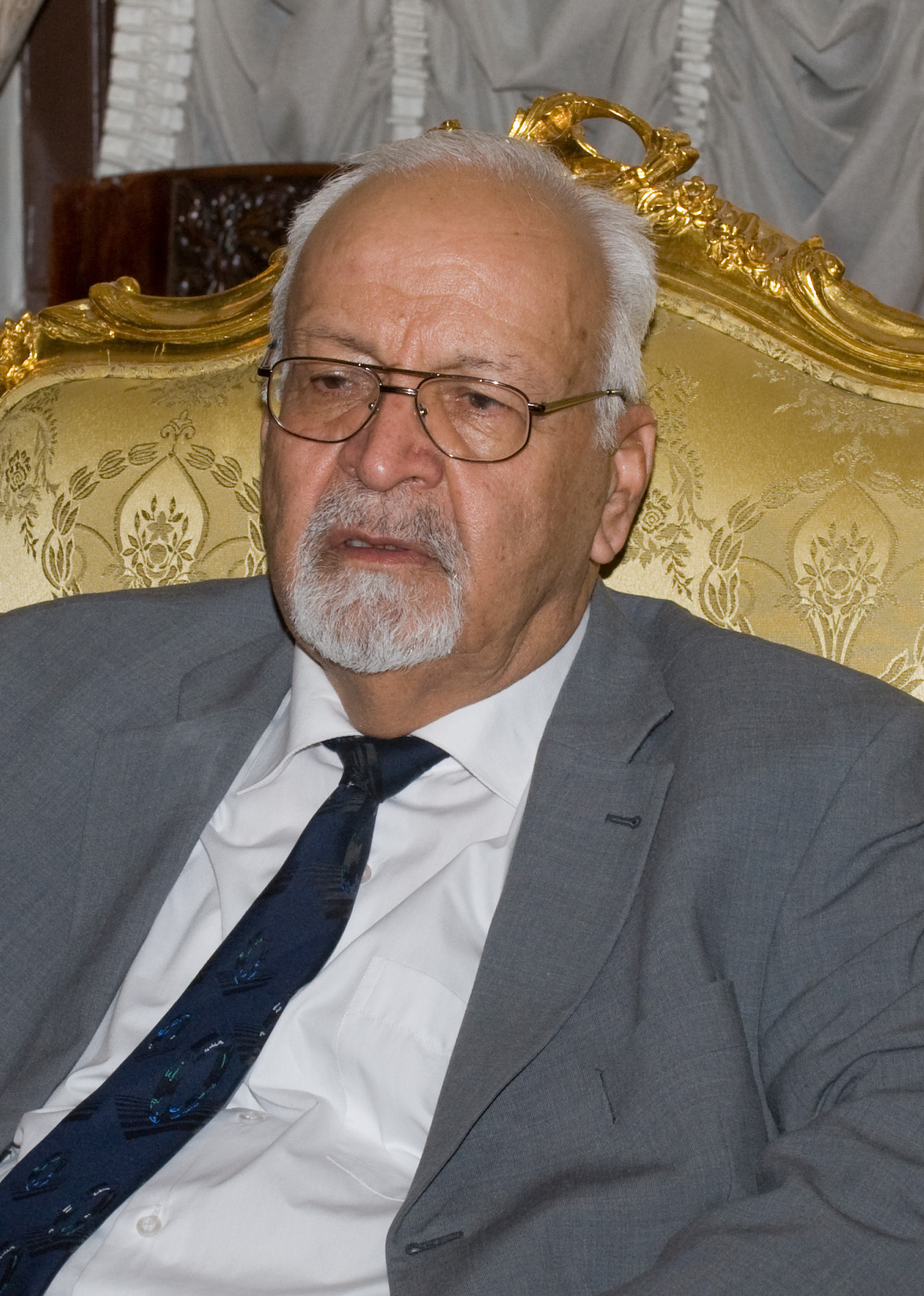 Photo of the Afghan poet Suleiman Laek. Moscow, Afghanistan Embassy, 2009.